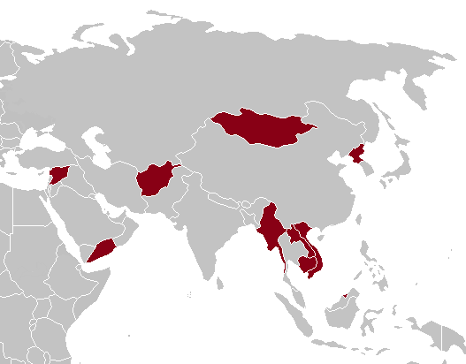 1986 Asia Games (Seoul) boycotting countries dark red